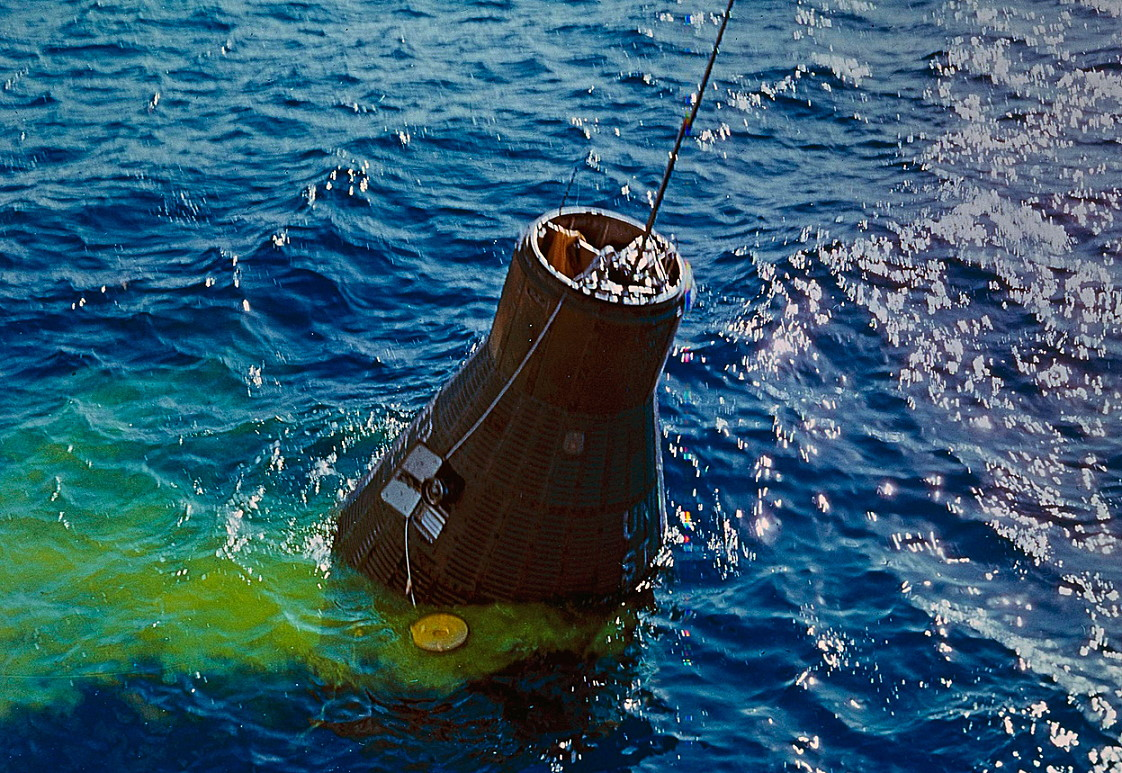 Friendship 7 recovery